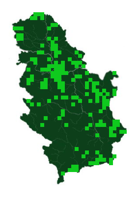 Lycaena thersamon - map of distribution in Serbia